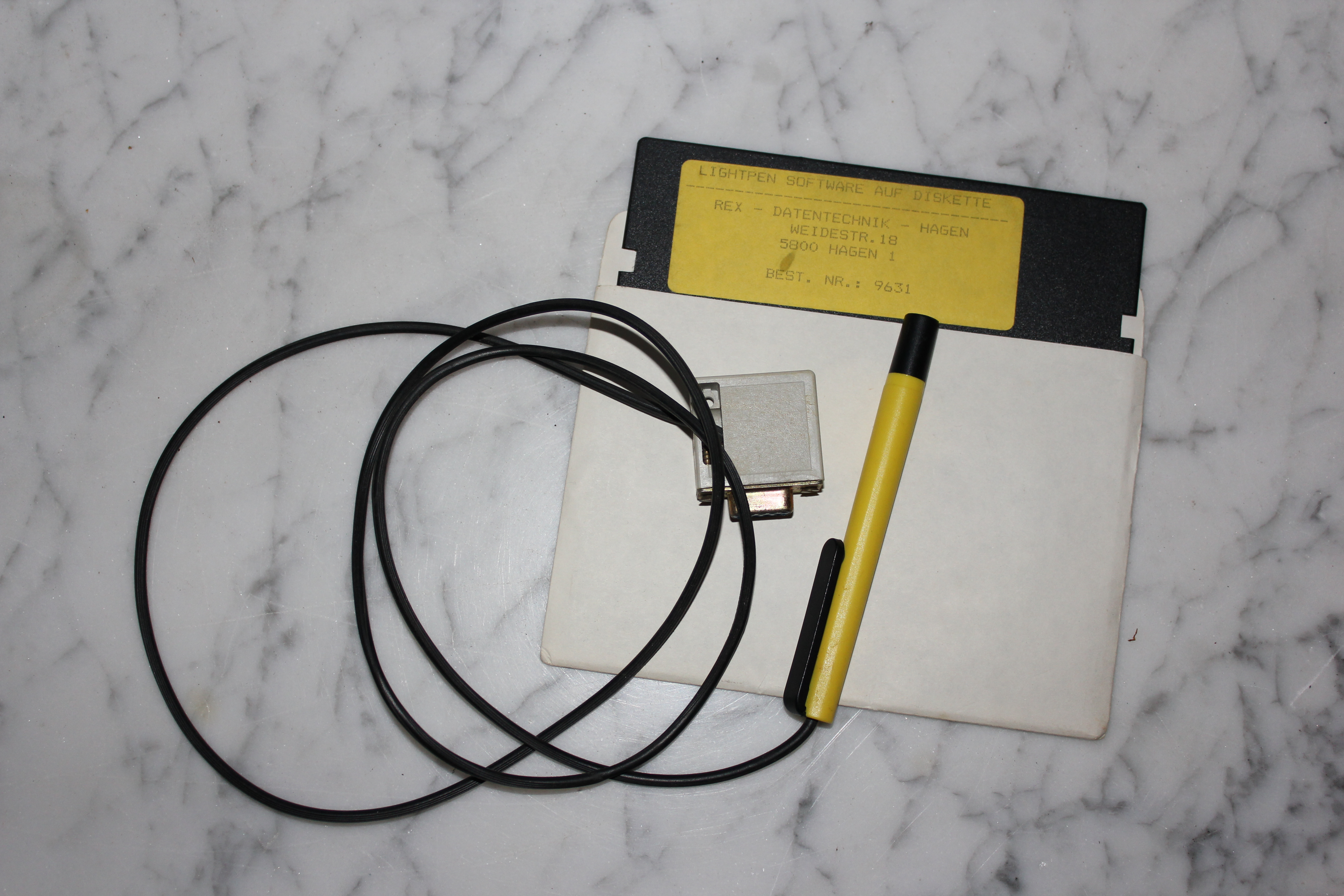 Commodore 64 Lightpen with its Software Disk